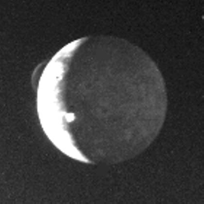 This dramatic view of Jupiter's satellite Io shows two simultaneously occurring volcanic eruptions. One can be seen on the limb, (at lower right) in which ash clouds are rising more than 150 miles (260 kilometers) above the satellite's surface. The second can be seen on the terminator (shadow between day and night) where the volcanic cloud is catching the rays of the rising sun. The dark hemisphere of Io is made visible by light reflected from Jupiter. Seen in Io's night sky, Jupiter looms almost 40 times larger and 200 times brighter than our own full Moon. This photo was taken by Voyager 1 on March 8, 1979, looking back 2.6 million miles (4.5 million kilometers) at Io, three days after its historic encounter. This is the same image in which Linda A. Morabito, a JPL engineer, discovered the first extraterrestrial volcanic eruption (the bright curved volcanic cloud on the limb). Jet Propulsion Laboratory manages and controls the Voyager project for NASA's Office of Space Science.